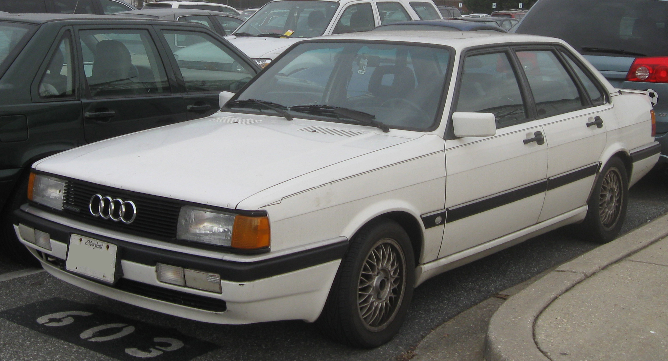 Audi 4000CS photographed in College Park, Maryland, USA.